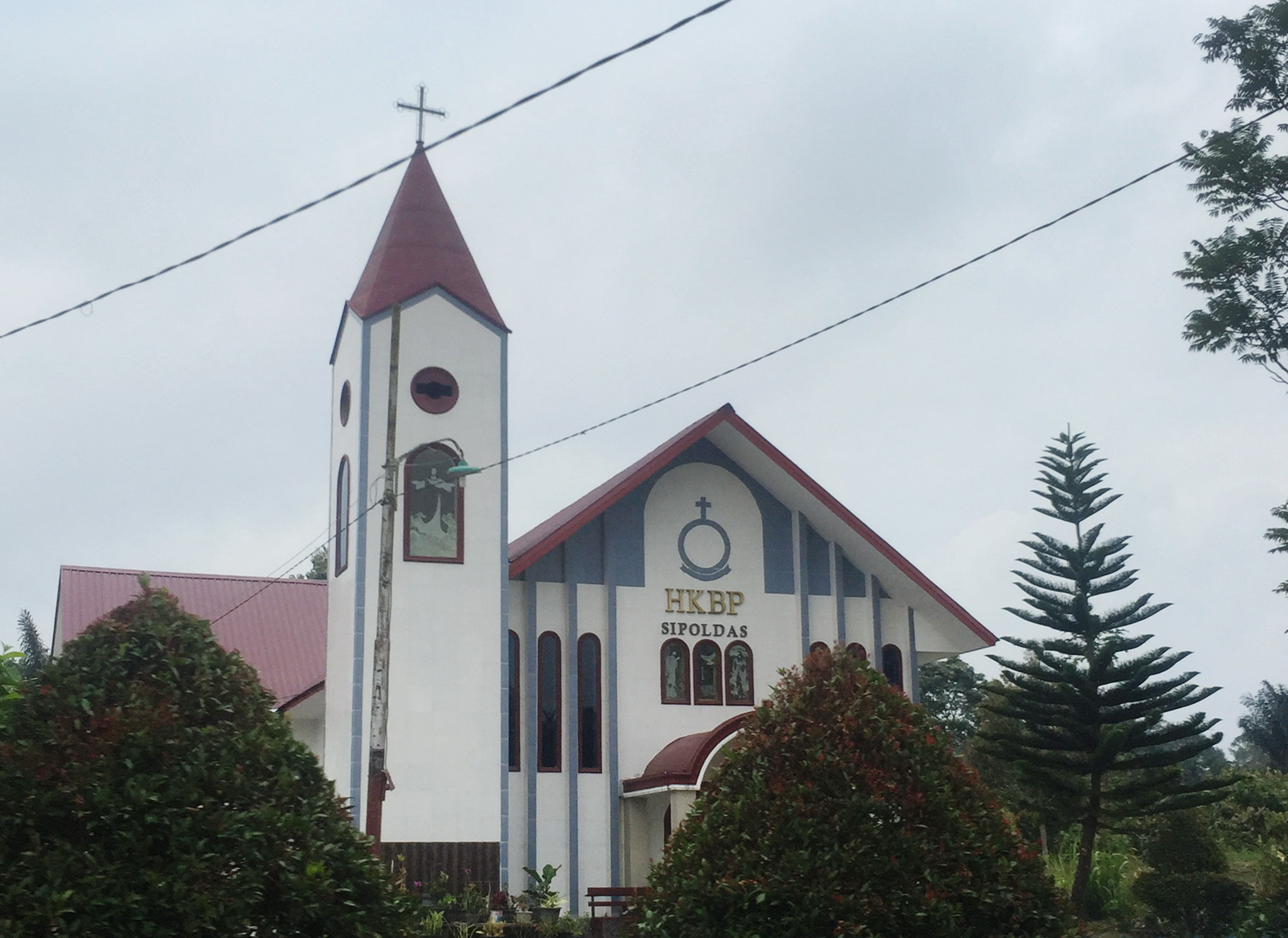 HKBP Sipoldas, church in Sipoldas, Panei, Simalungun